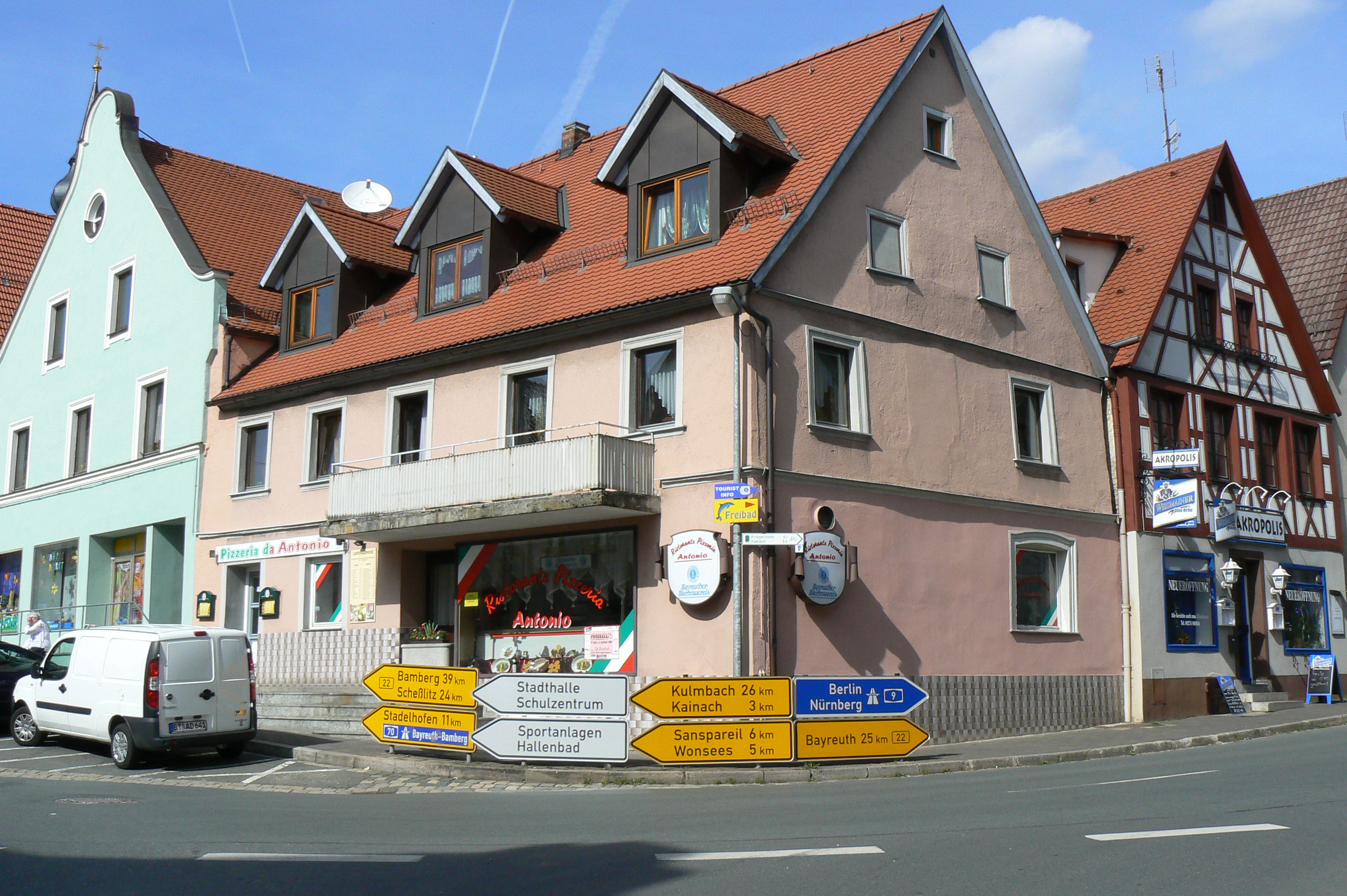 center of Hollfeld, Germany